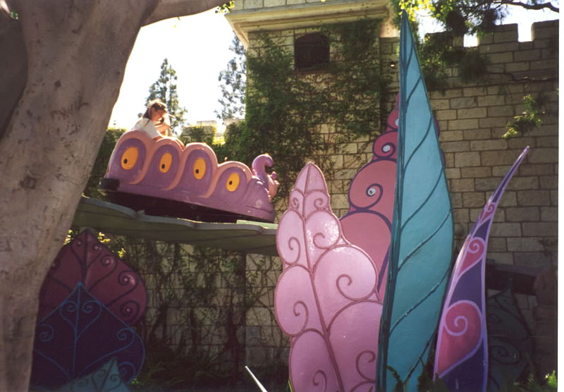 Alice in Wonderland ride Disneyland 1996 Taken by Ellen Levy Finch (User:Elf)